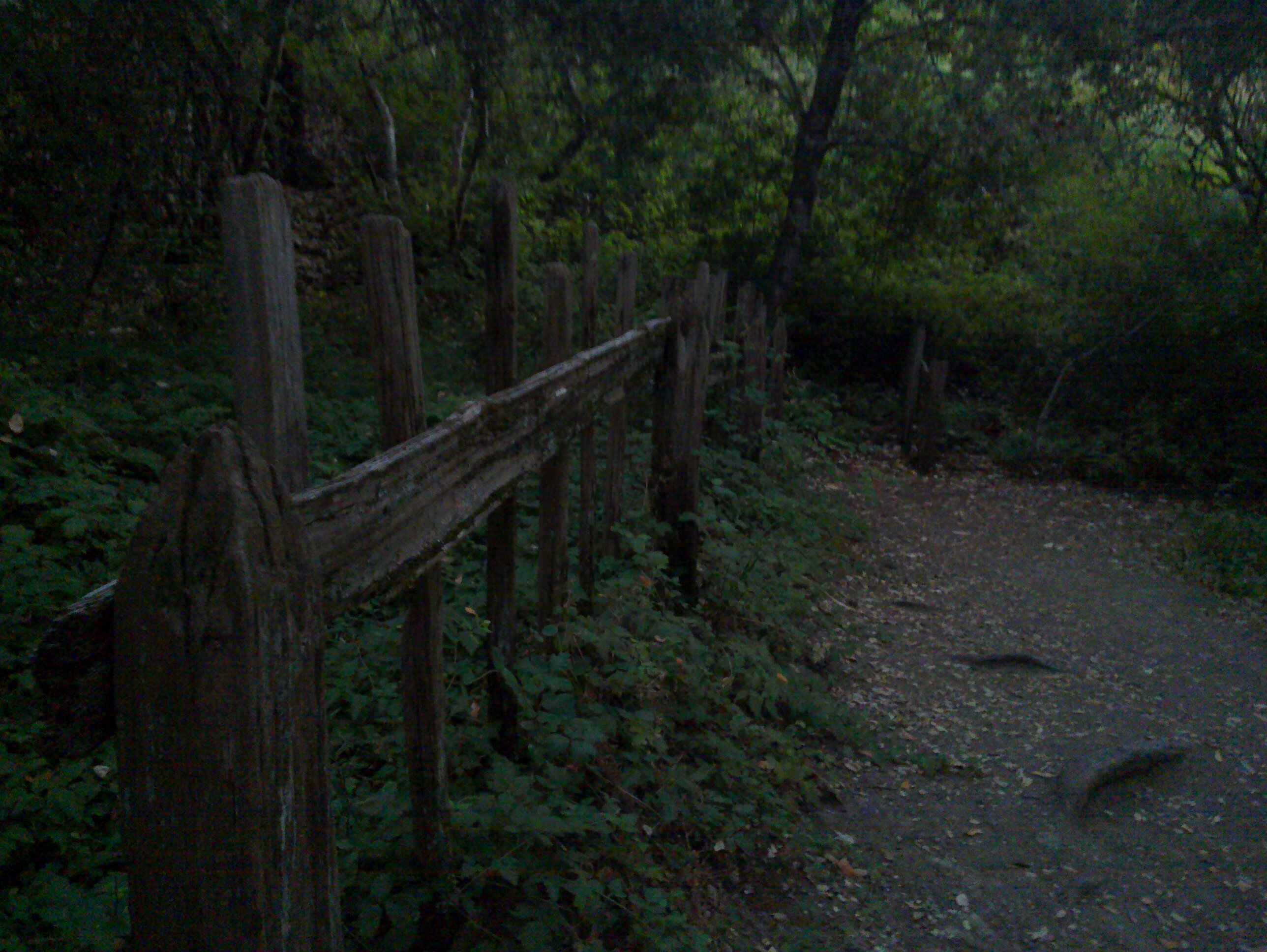 Moved fence in San Francisco earthquake 1906 - San Andreas Fault, Los Trancos Open Space Reserve